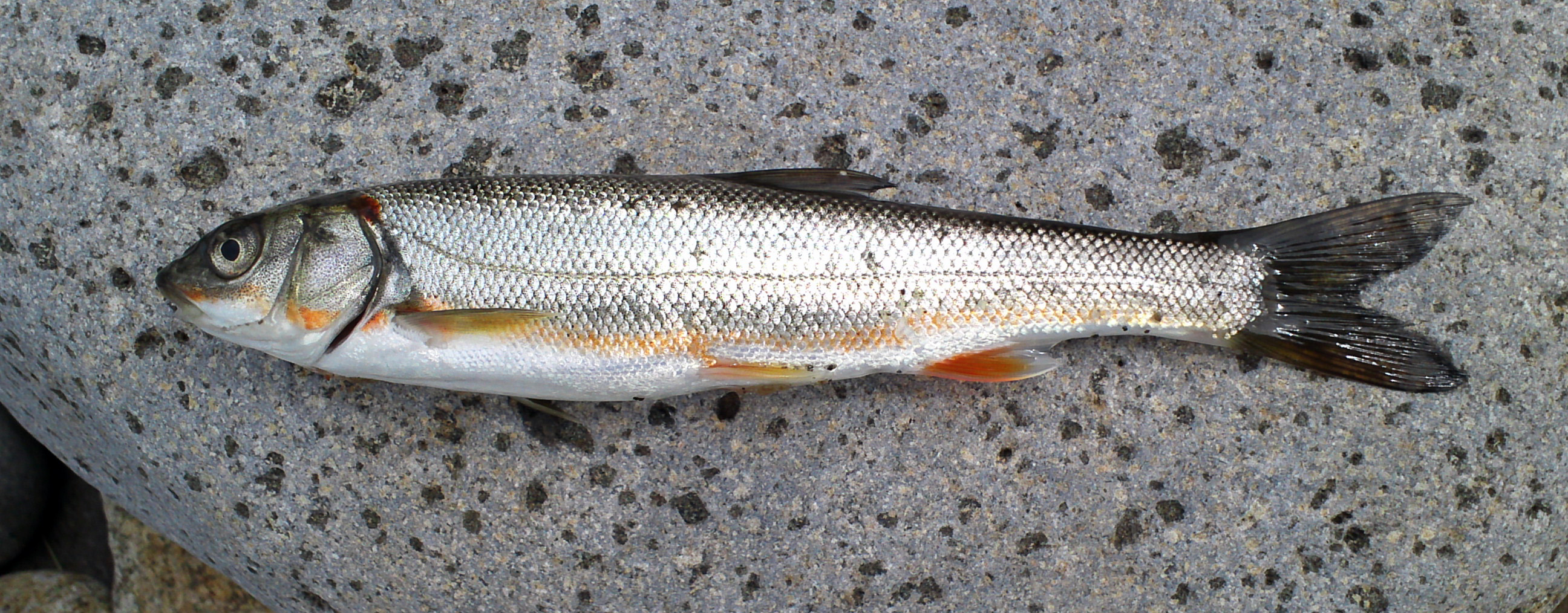 Tribolodon hakonensis Capture place, the Nagano Chikuma River.